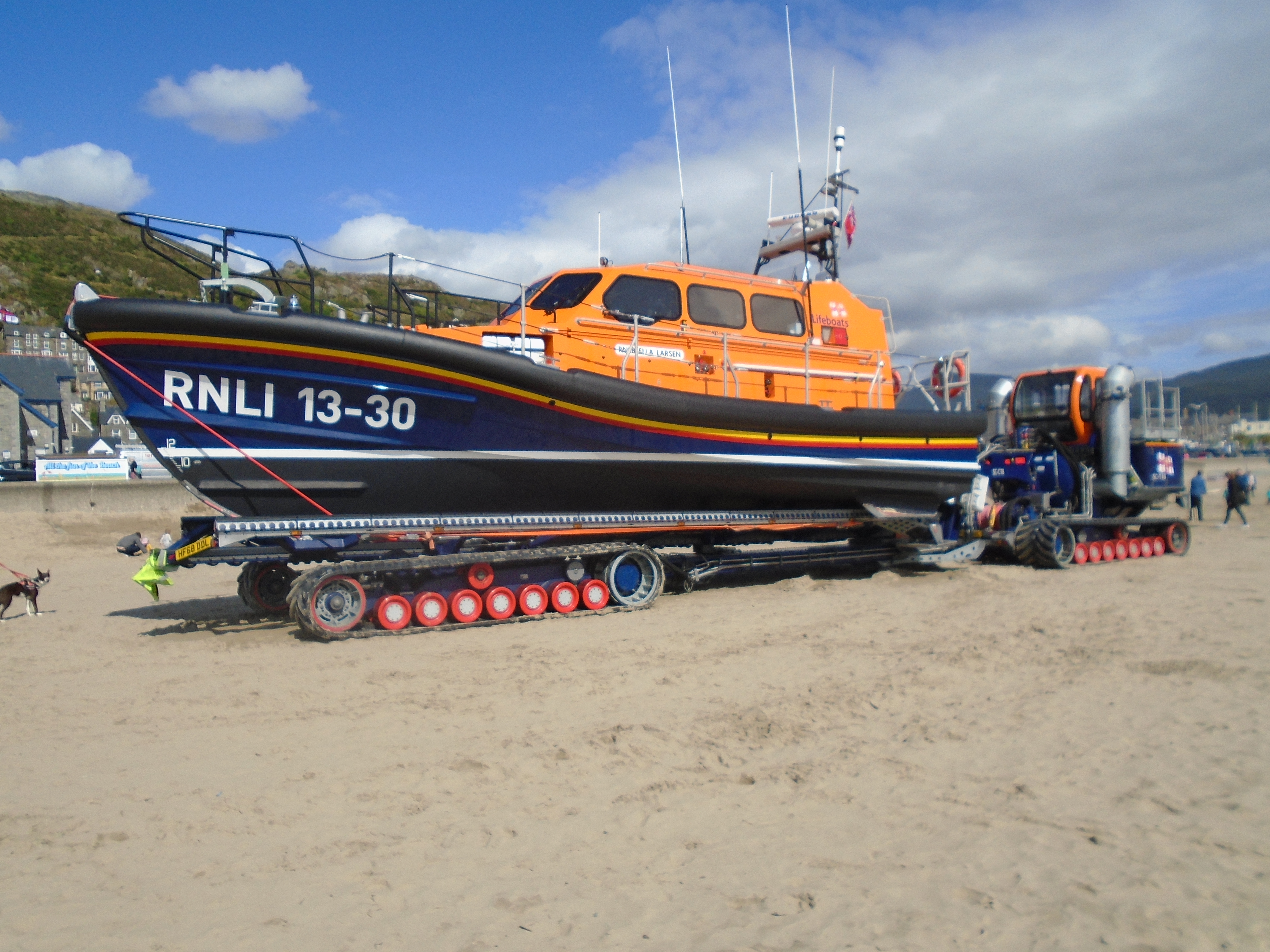 Barmouth Shannon class lifeboat Ella Larsen. Commissioned 2019.